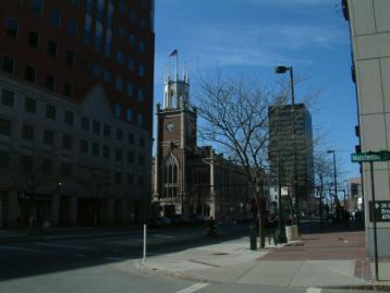 City hall plaza in Manchester, NH. I took this picture